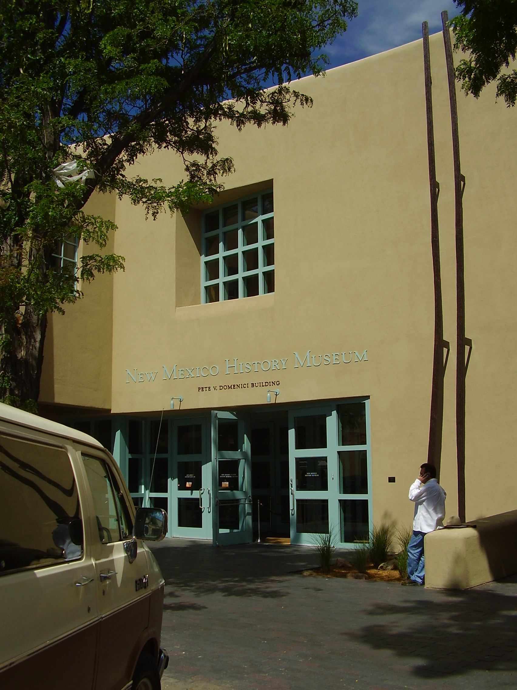 Pete V. Domenici Building - New Mexico History Museum, in Santa Fe, New Mexico